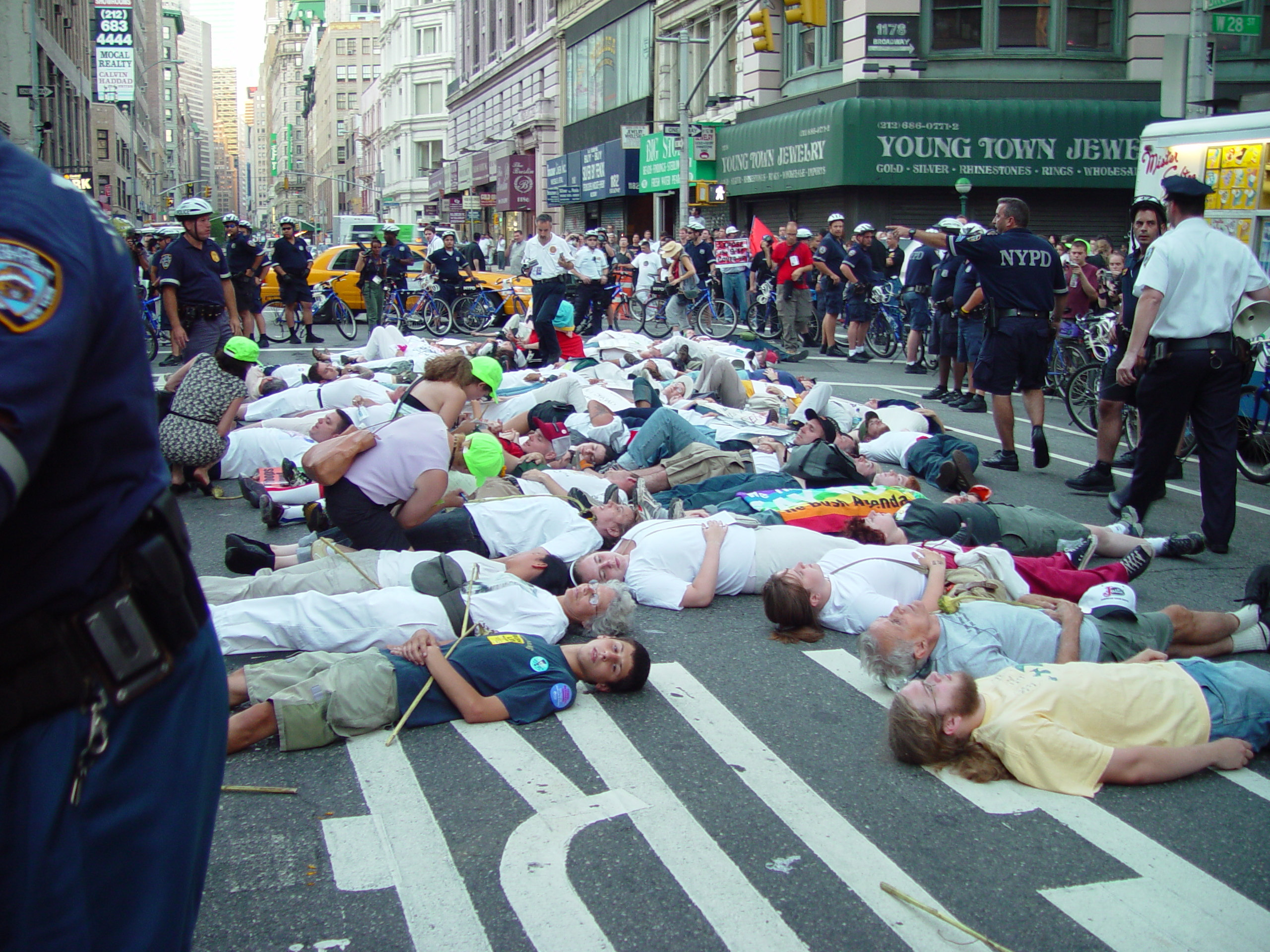 Civil disobedience at the protests of the Republican National Convention, New York City.